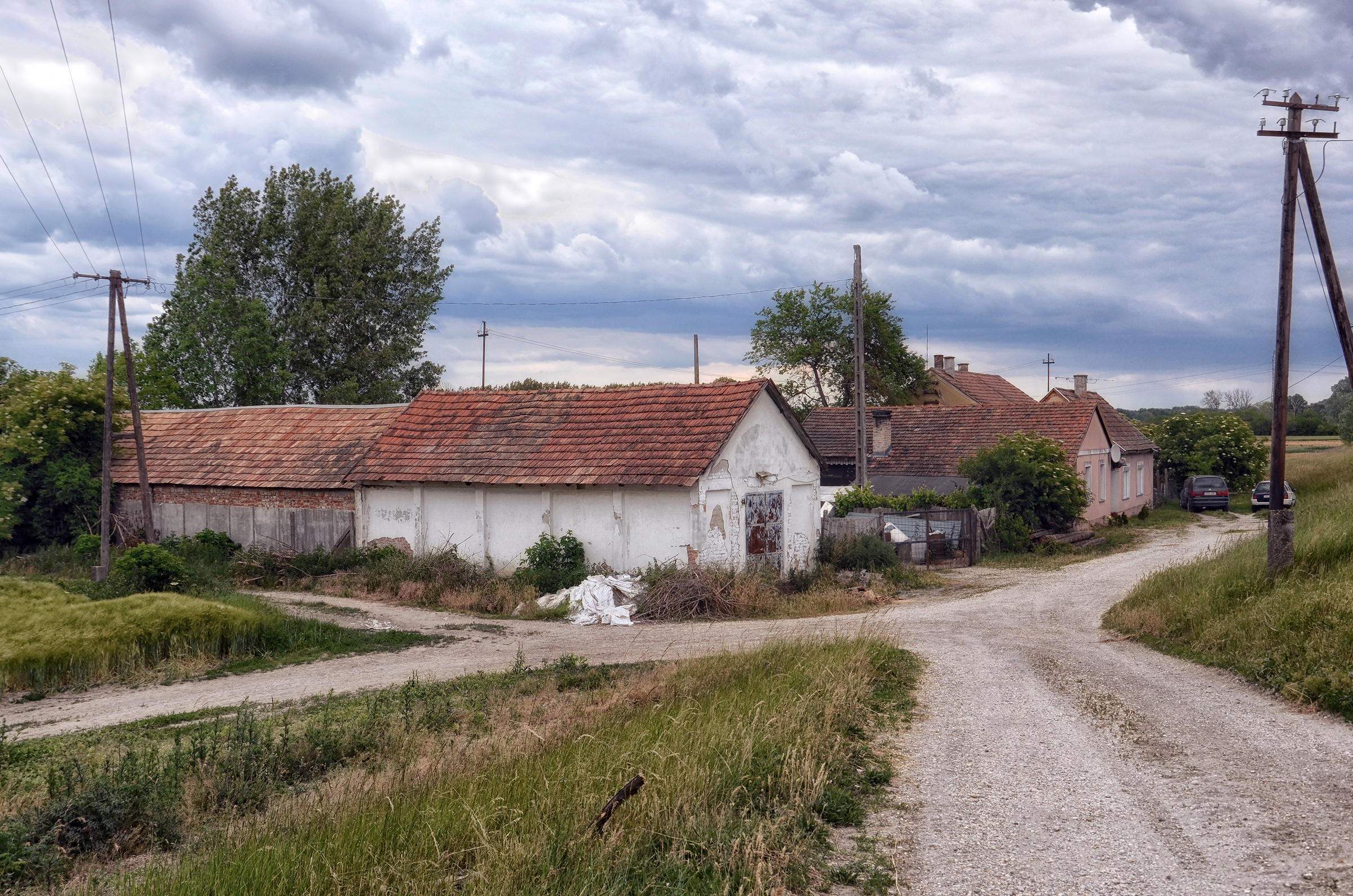 Outparts in Abda, Hungary